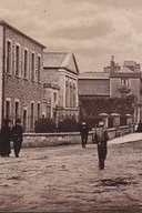 Old postcard showing Dungarvan Courthouse